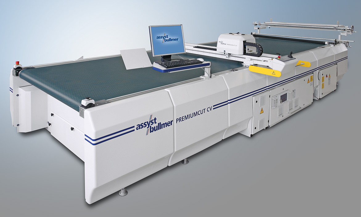 Automatic Cutter with Ultrasonic cutting tool for composite materials and technical textiles